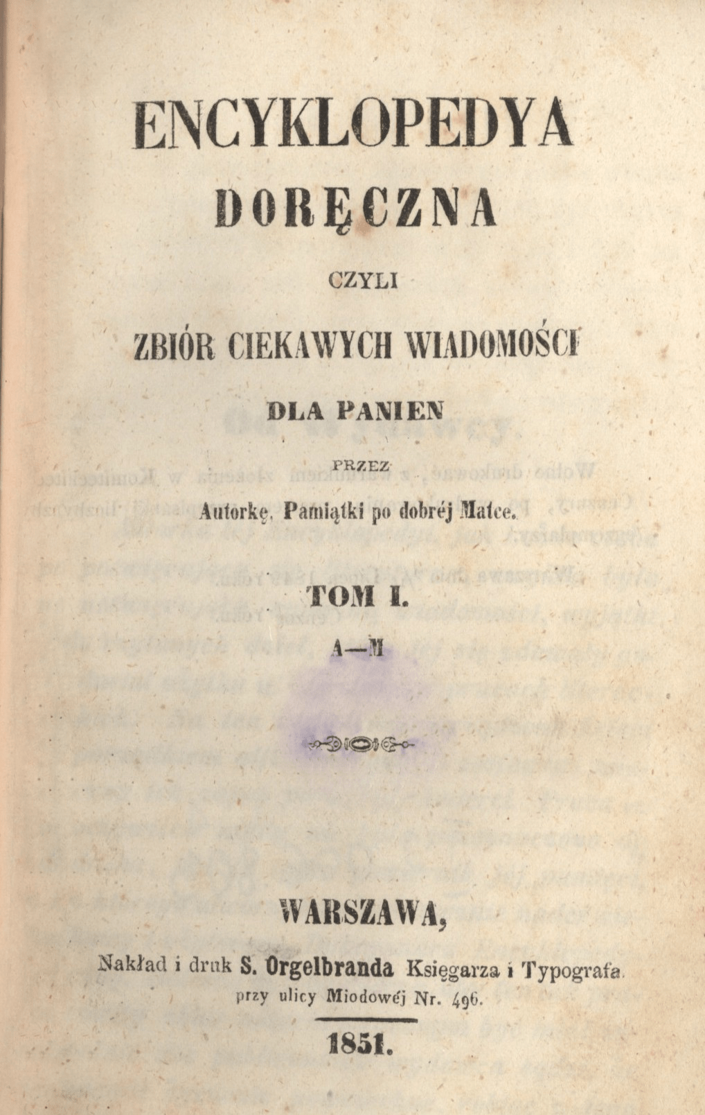 Encyklopedya doręczna.